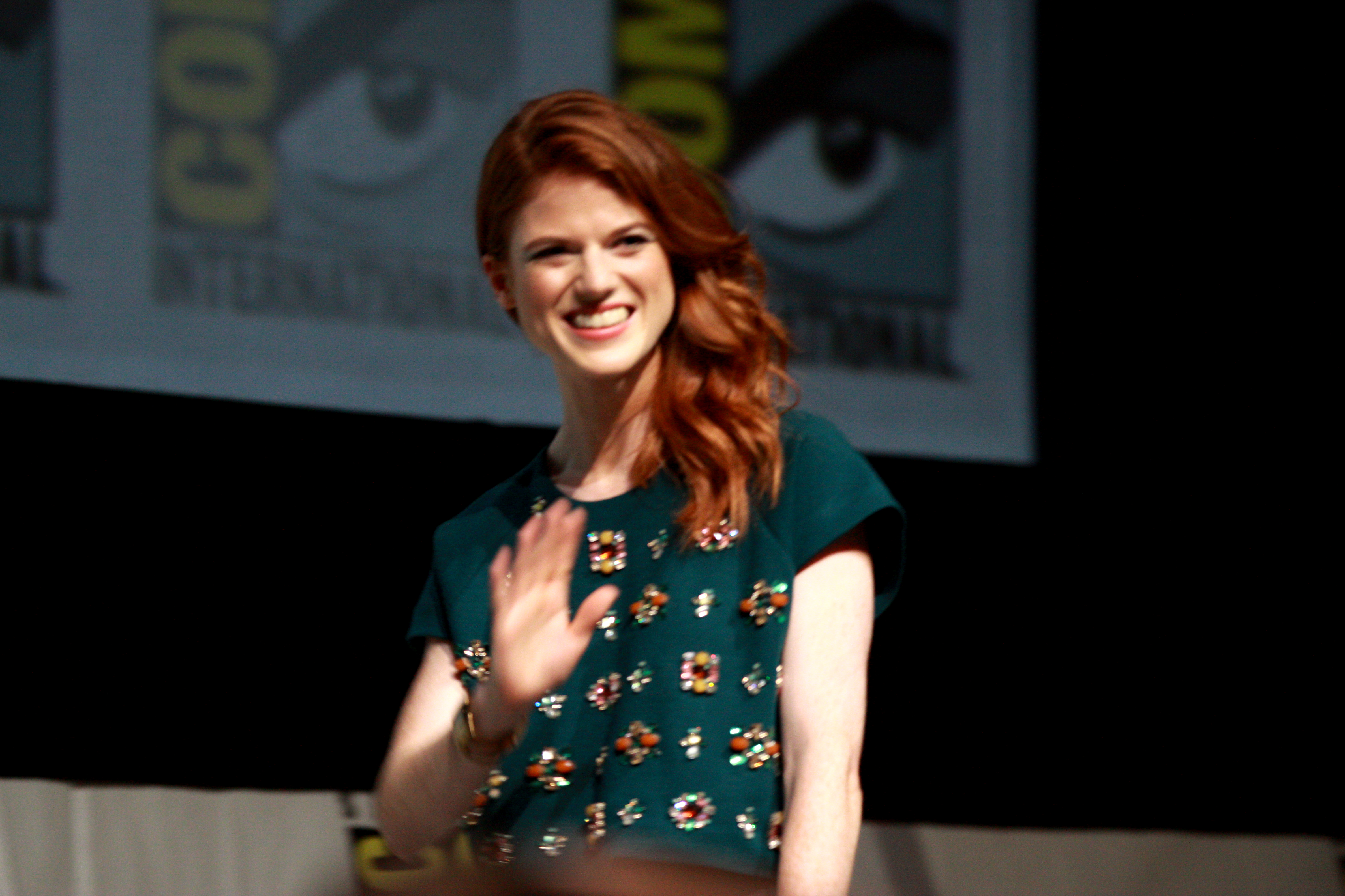 Rose Leslie speaking at the 2013 San Diego Comic Con International, for "Game of Thrones", at the San Diego Convention Center in San Diego, California.